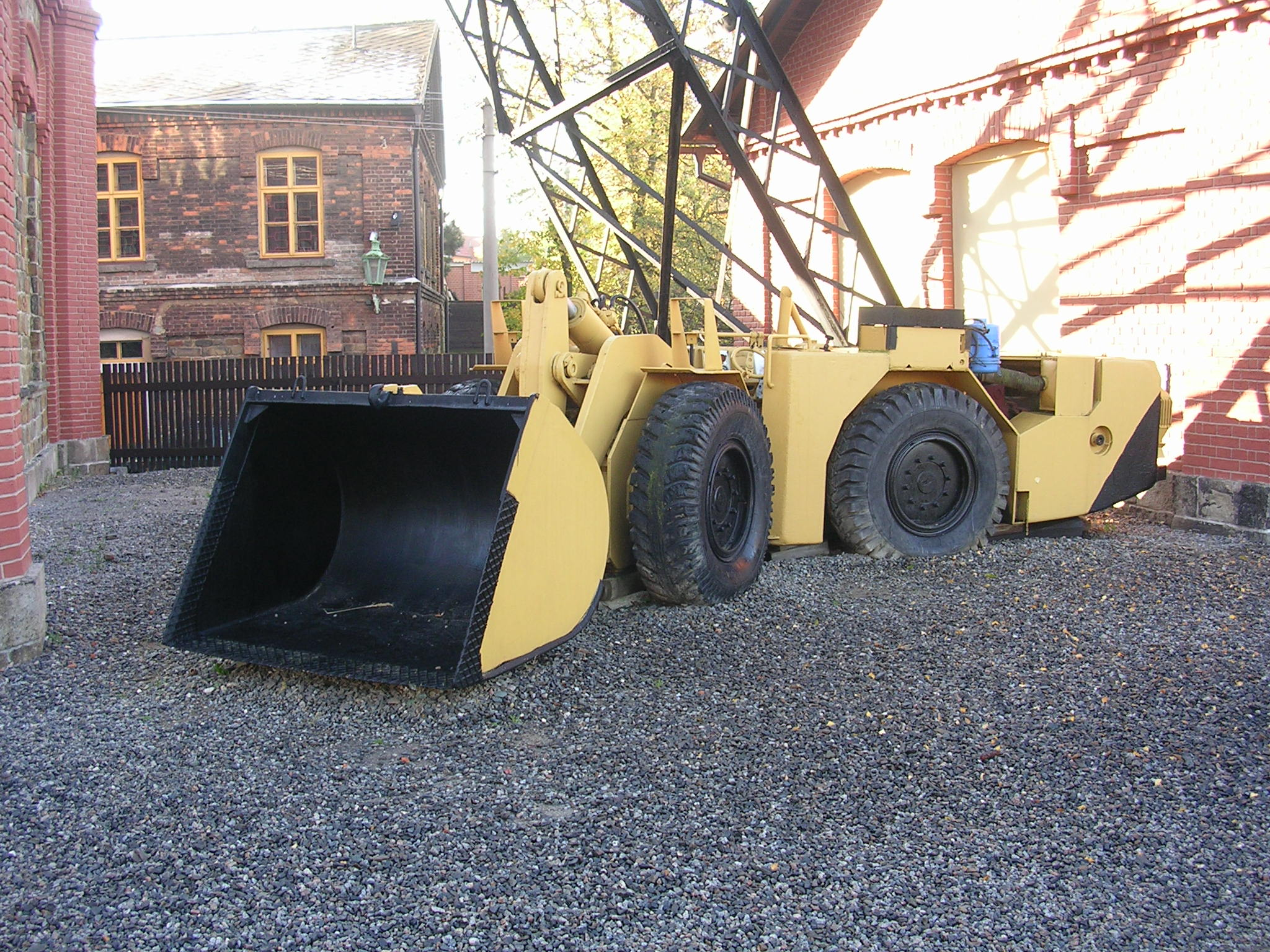 Příbram, mining museum.